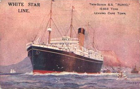 SS Runic, White Star Line (in 1930 converted to whaling factory New Sevilla)